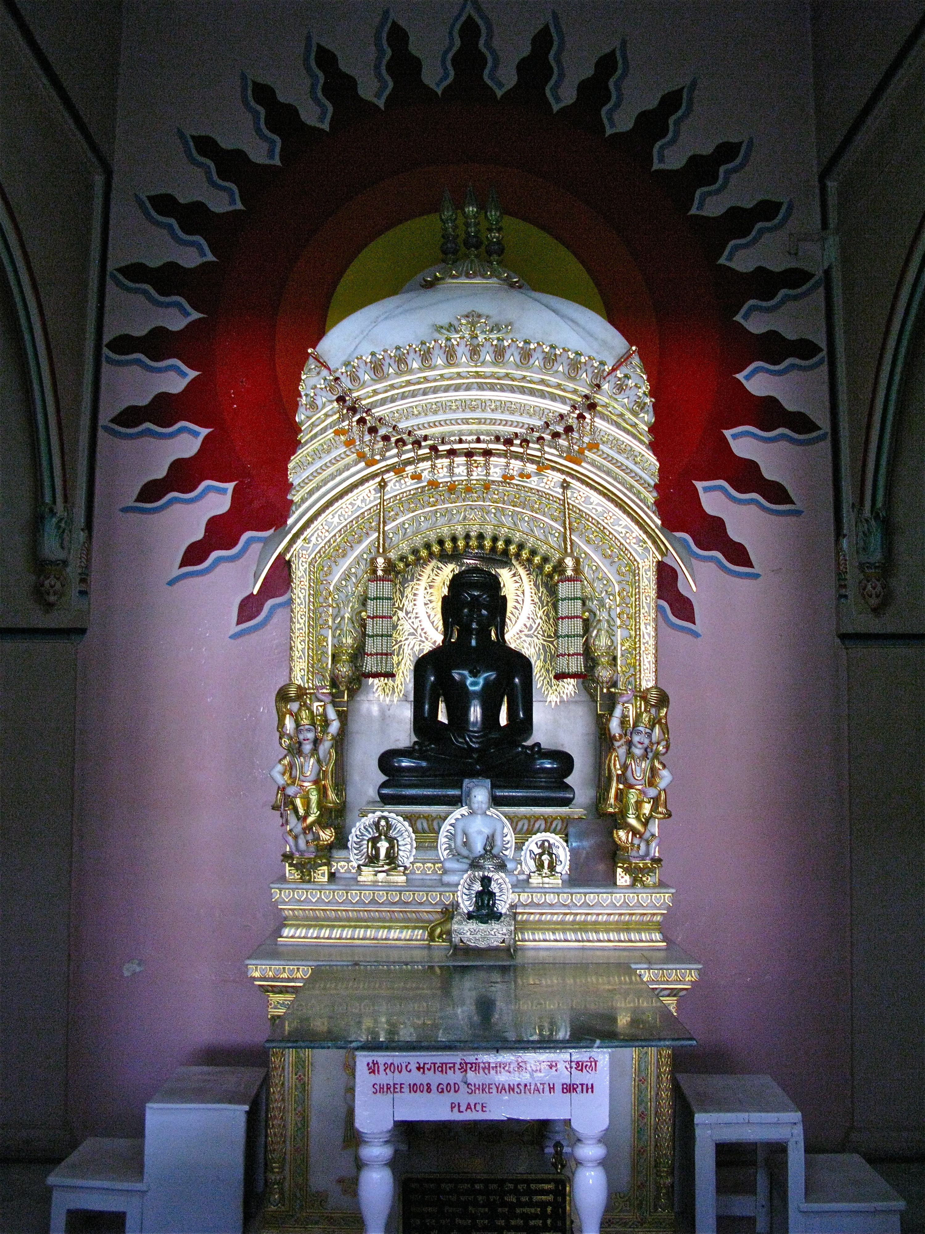 Shreyansanath was the eleventh Jain Tirthankar.